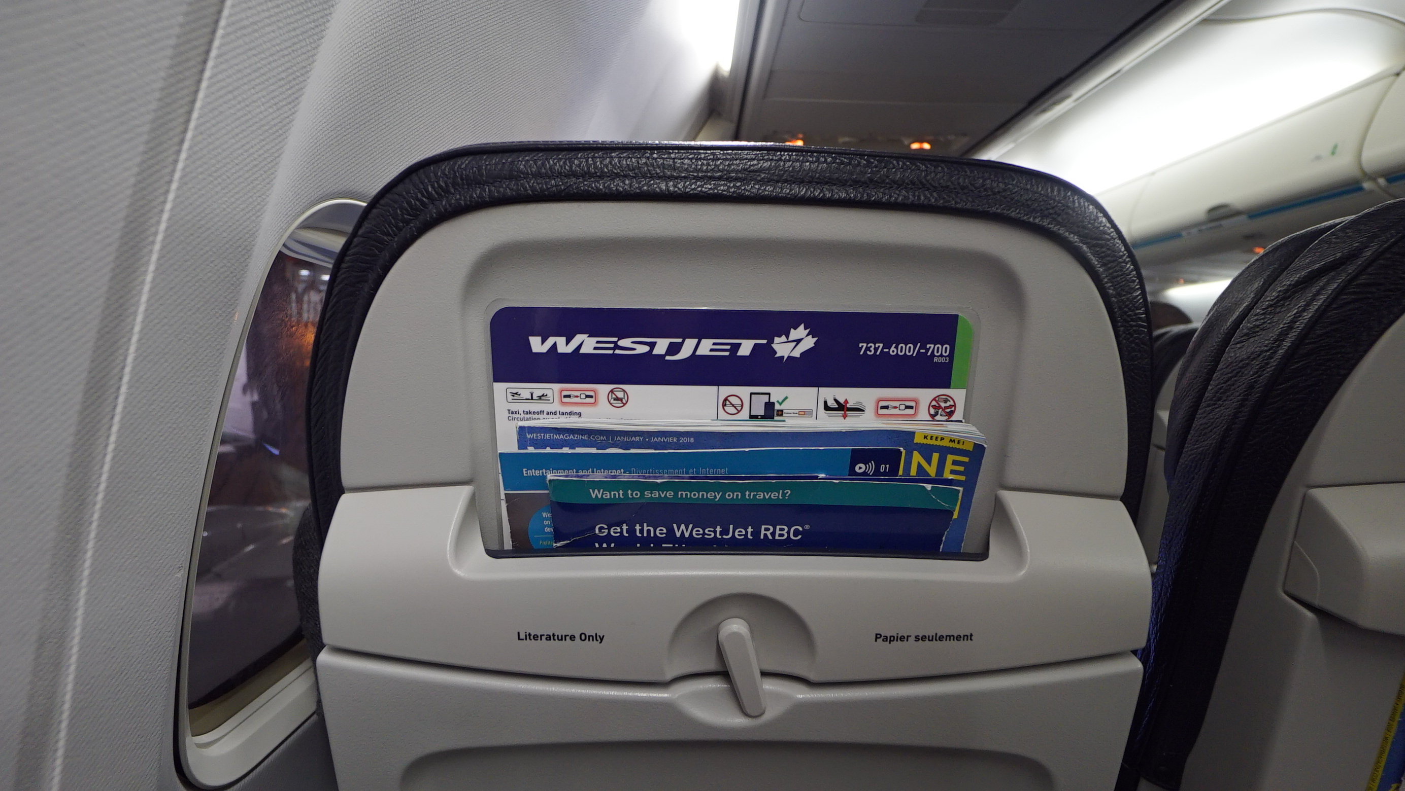 Seatback inside a WestJet 737.